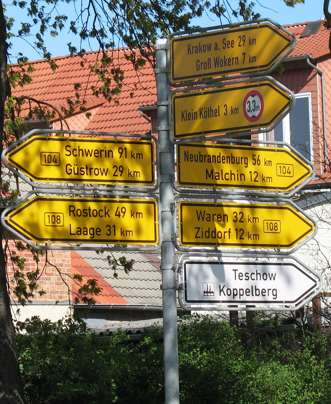 Road signs in Teterow (Germany).